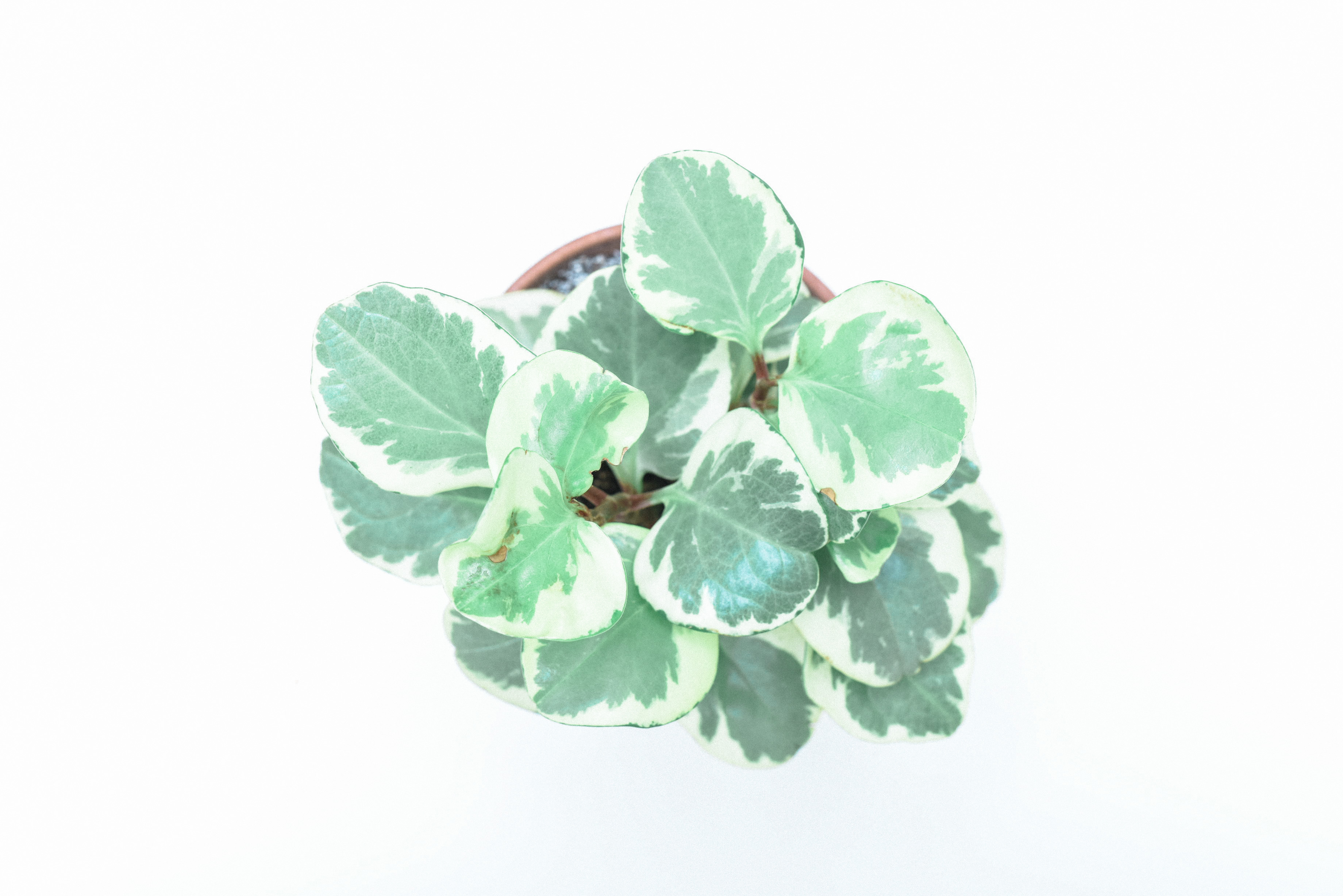 varigated peperomia